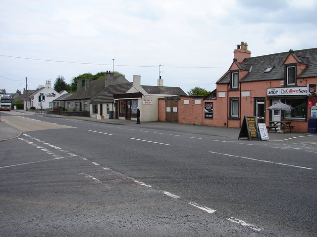 Springholm A75 The A75 winds through the village/settlement of Springholm some 6 miles north of Castle Douglas. Here at the 'heart' is the local store, barbers, and The Grapes - a popular public house/restaurant. The village hall is out of camera to left of junction.